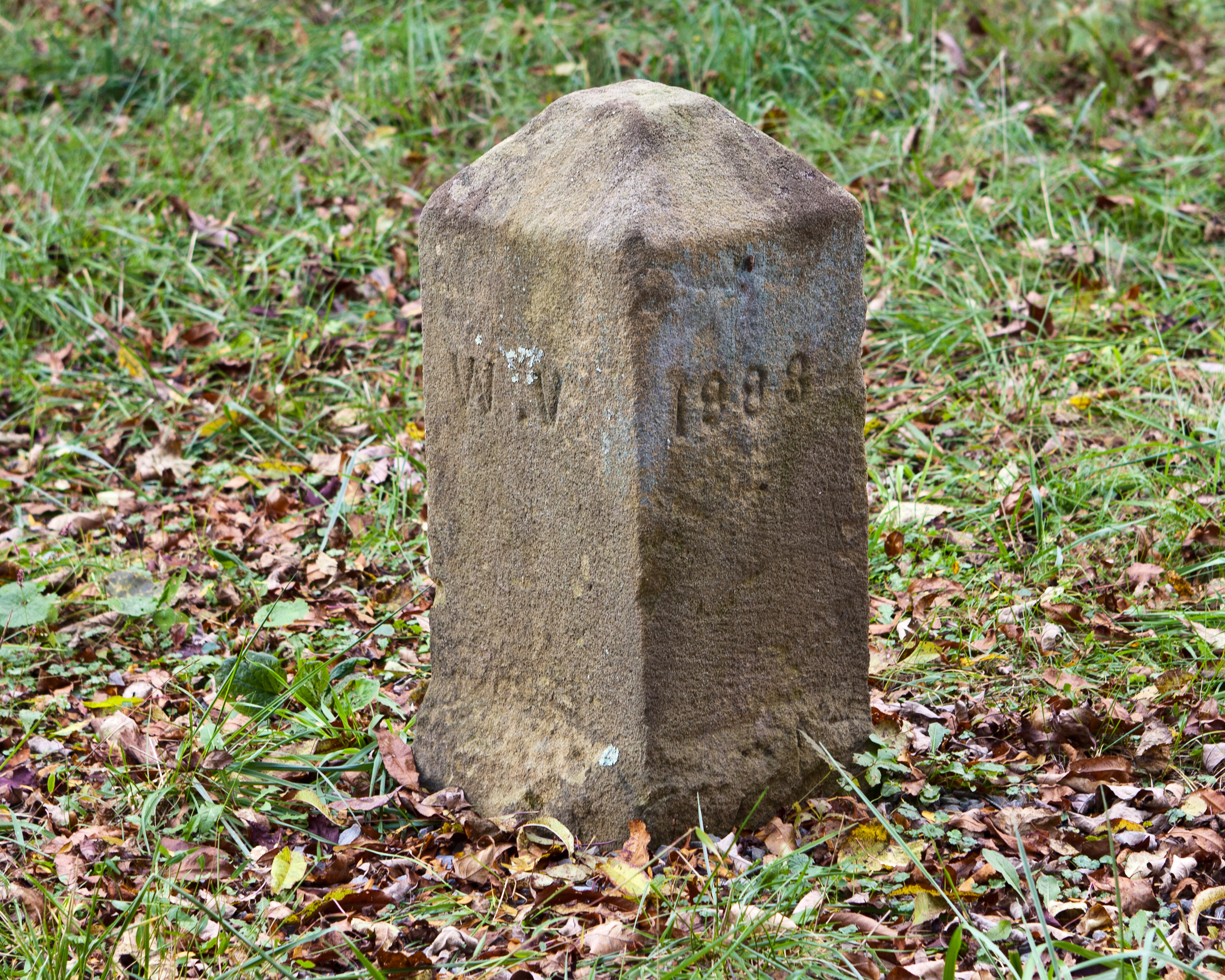 Mason and Dixon Survey Terminal Point, showing the placement date and "WV", denoting the West Virginia side of the line.